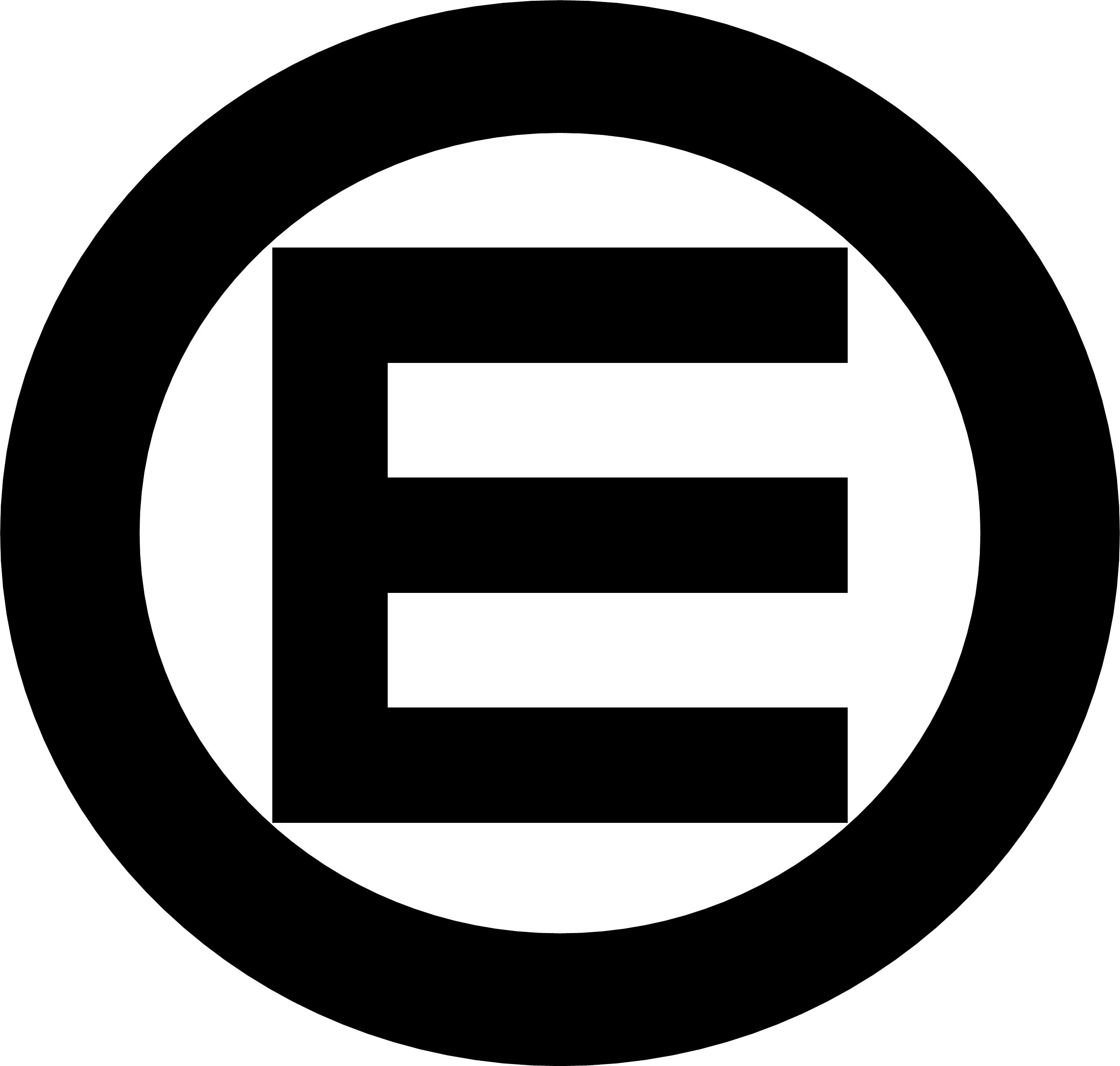 This is the logo used for egalitarian/ equality beliefs. Similar to the well known anarchy "A", a capital "E" inscribed in a circle is used in political imagery to show a belief in the equality of different types of people.